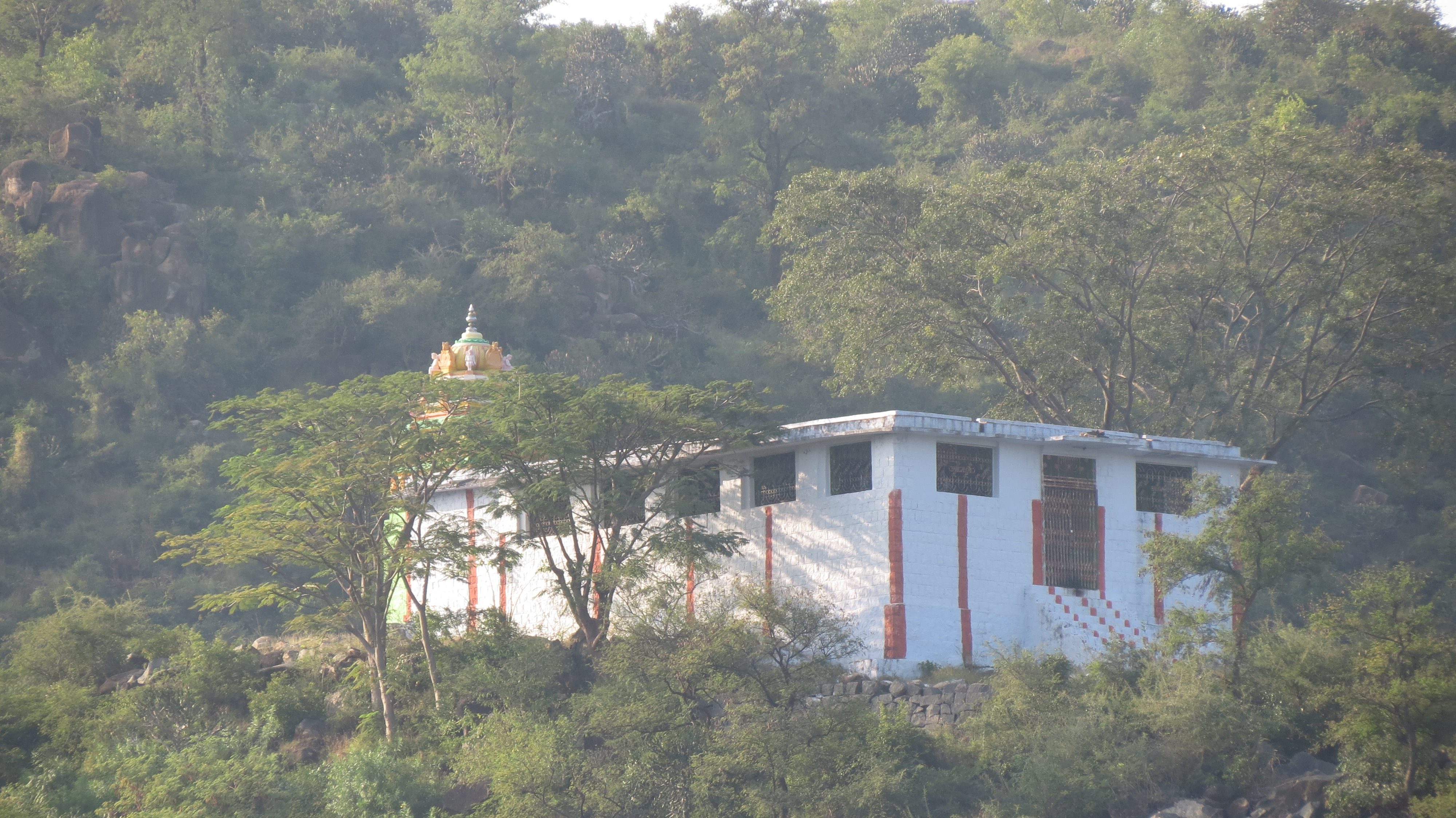 View of Hill temple for Lord Muruga, located in Pappireddipatti, Tamilnadu, India.